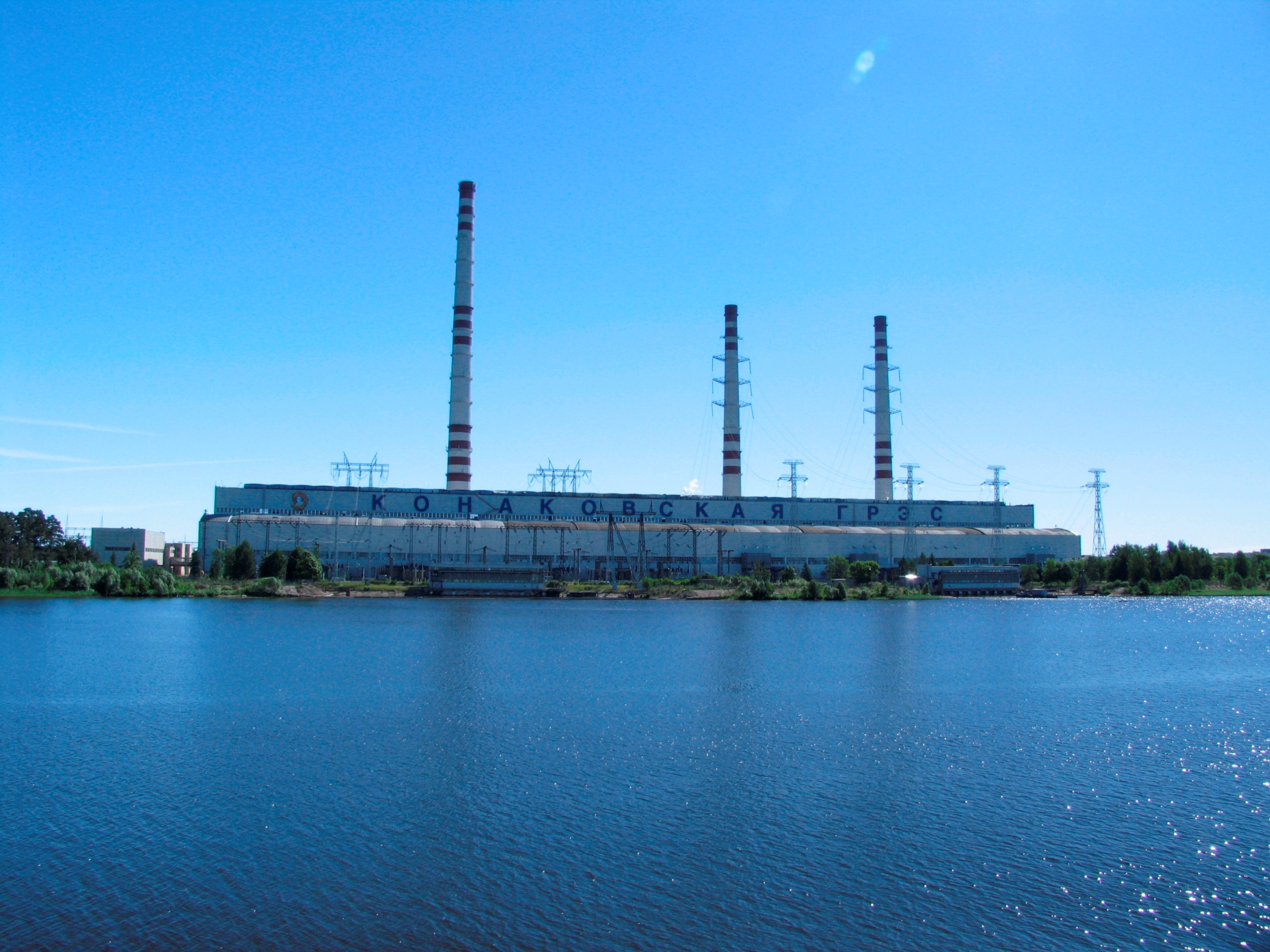 Konakovo GRES (State area power plant). View from the ship goes down by Volga. Also seen Volga river.